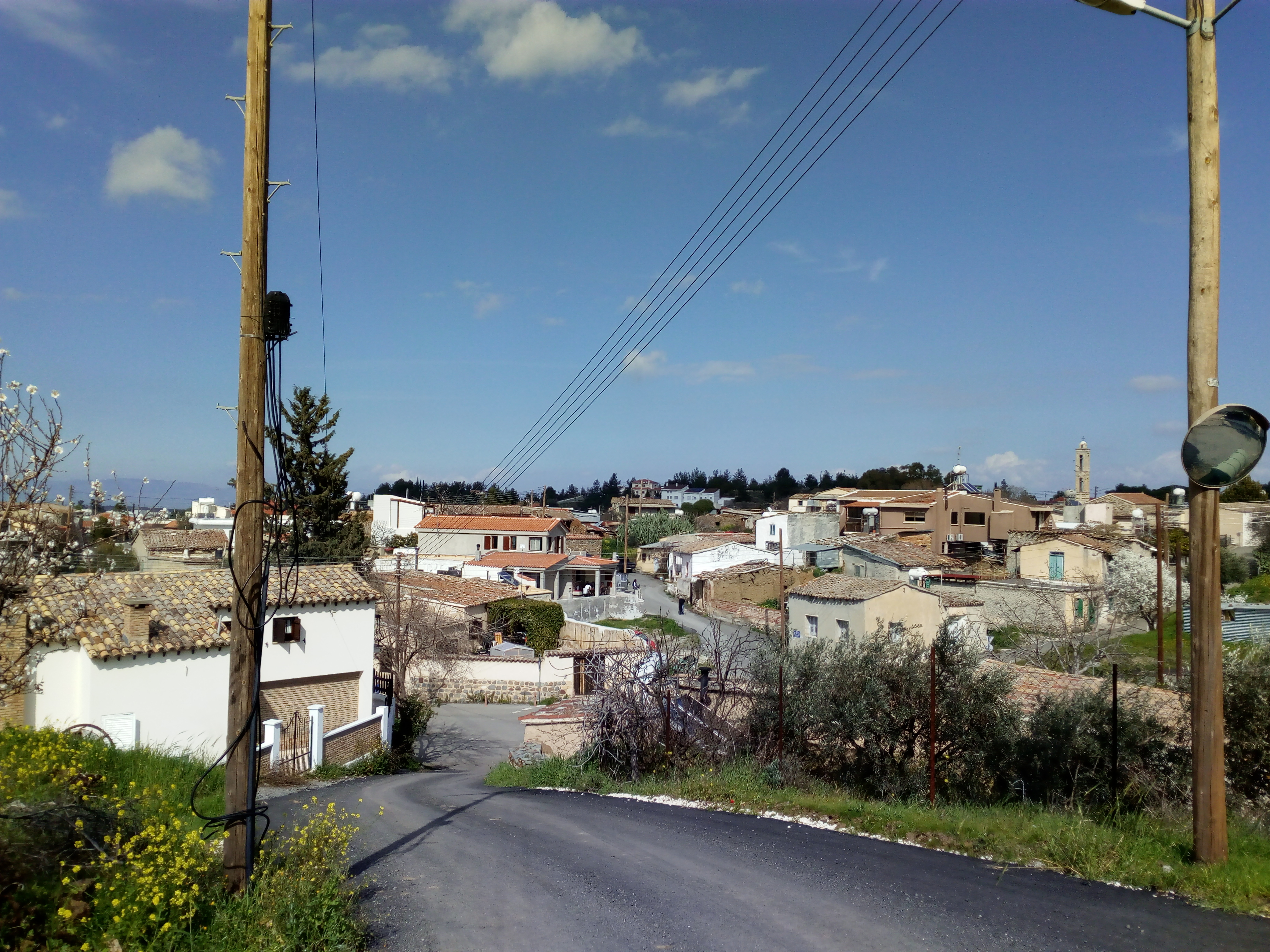 View of Kalo Chorio, Nicosia District, Rep. of Cyprus